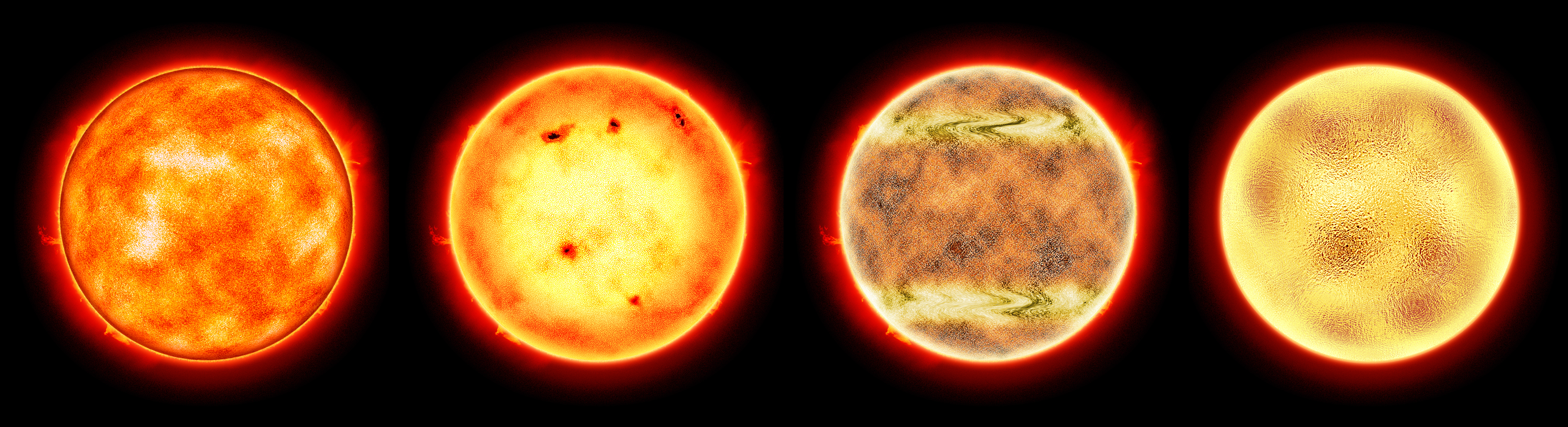 solspheresset